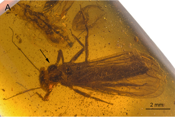 Largusoperla charliewattsi, holotype SMNS BU-10, photographs. (A) Dorsal view, arrow marks rounded pronotum.